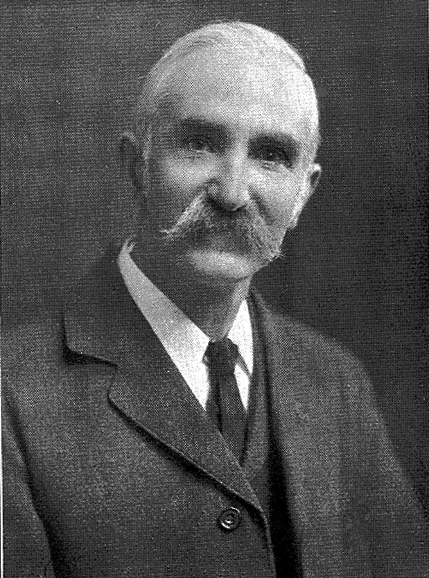 British chess composer George Hume (1862-1926)